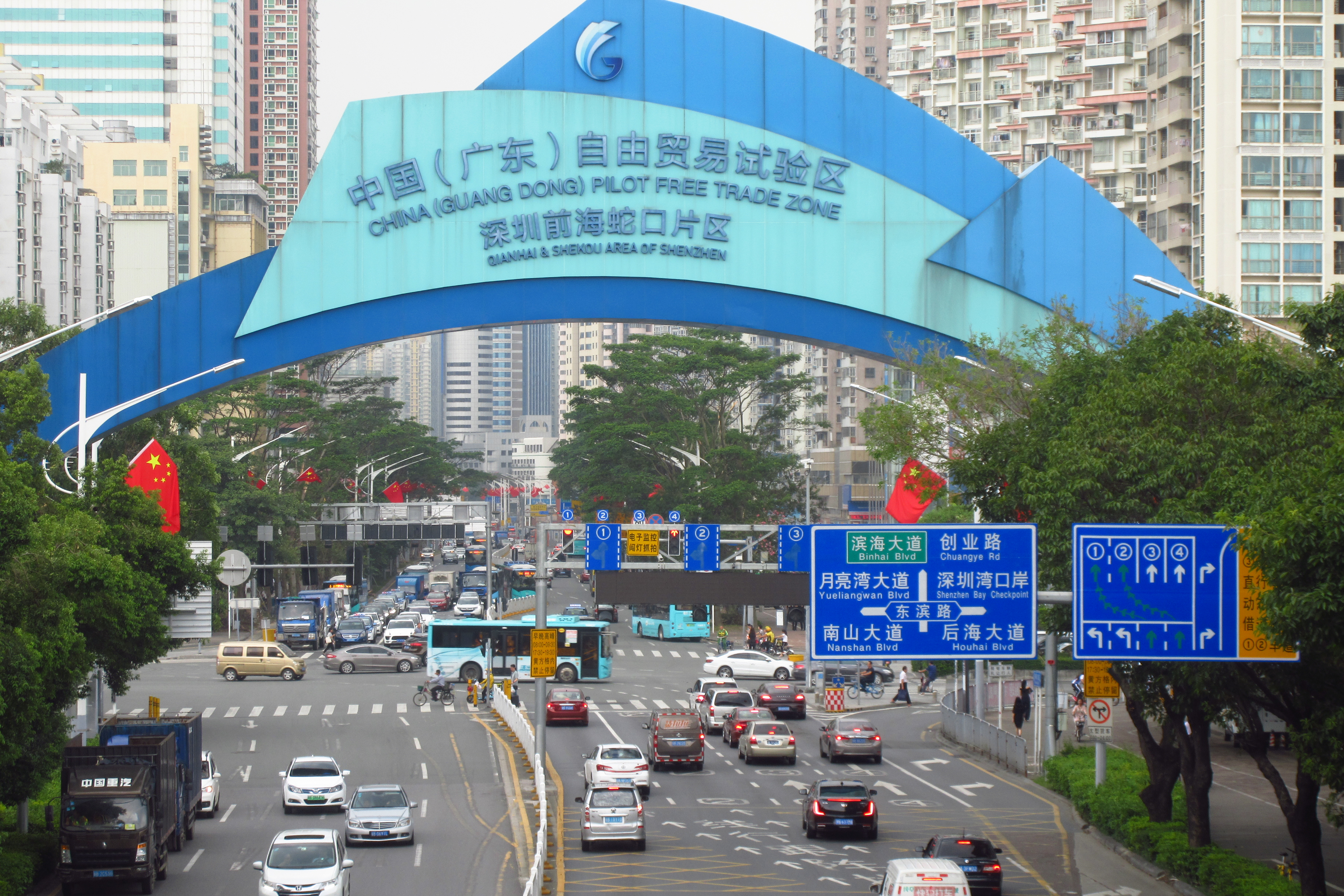 SZ 深圳 Shenzhen 南山區 Nanshan District 中國廣東自由貿易試験區深圳前海蛇口片區